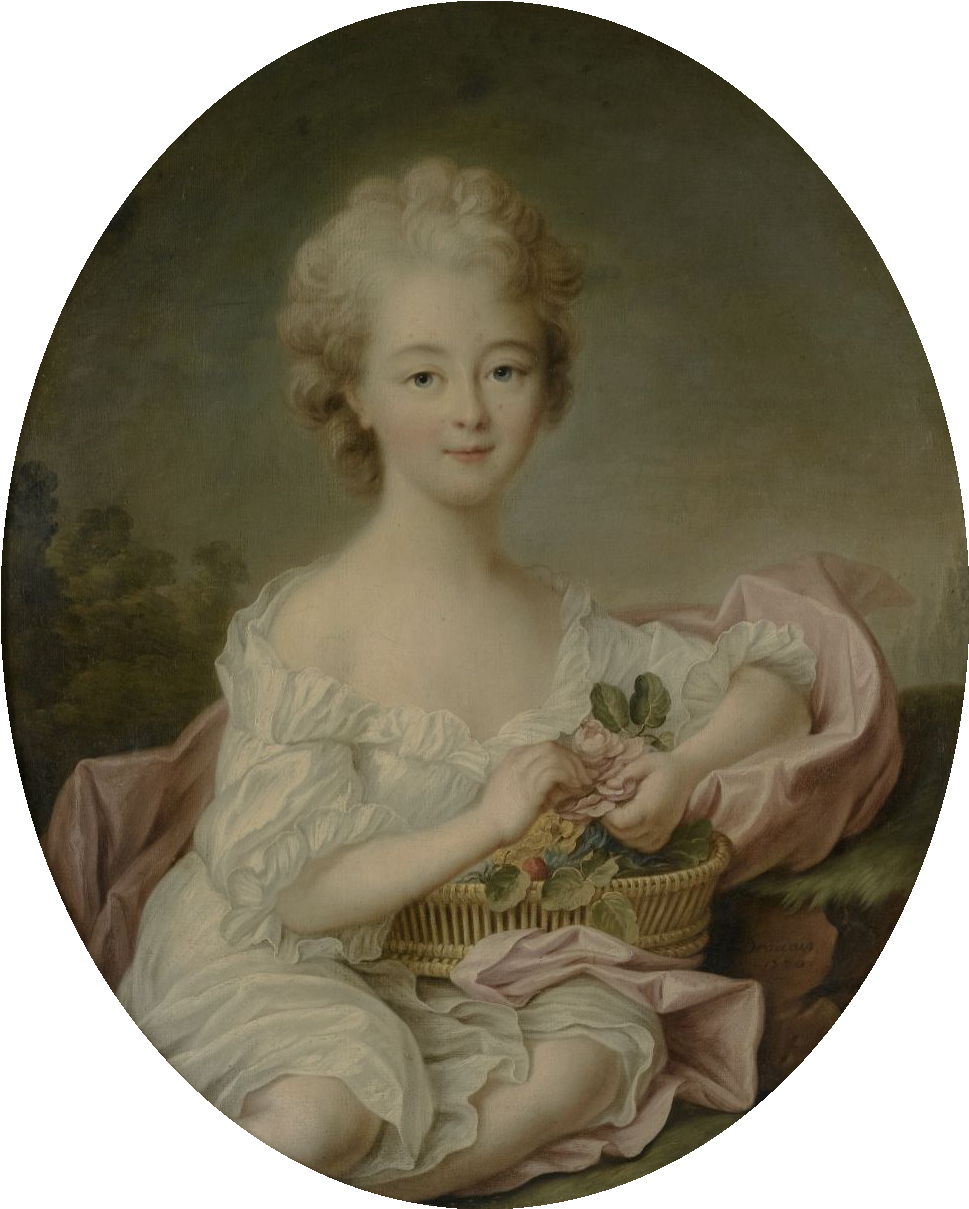 Suposed portrait of the Princess of Lamballe as a child